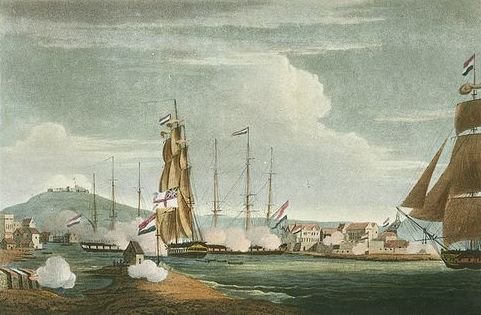 Capture of Curacoa, 1 Jan 1807